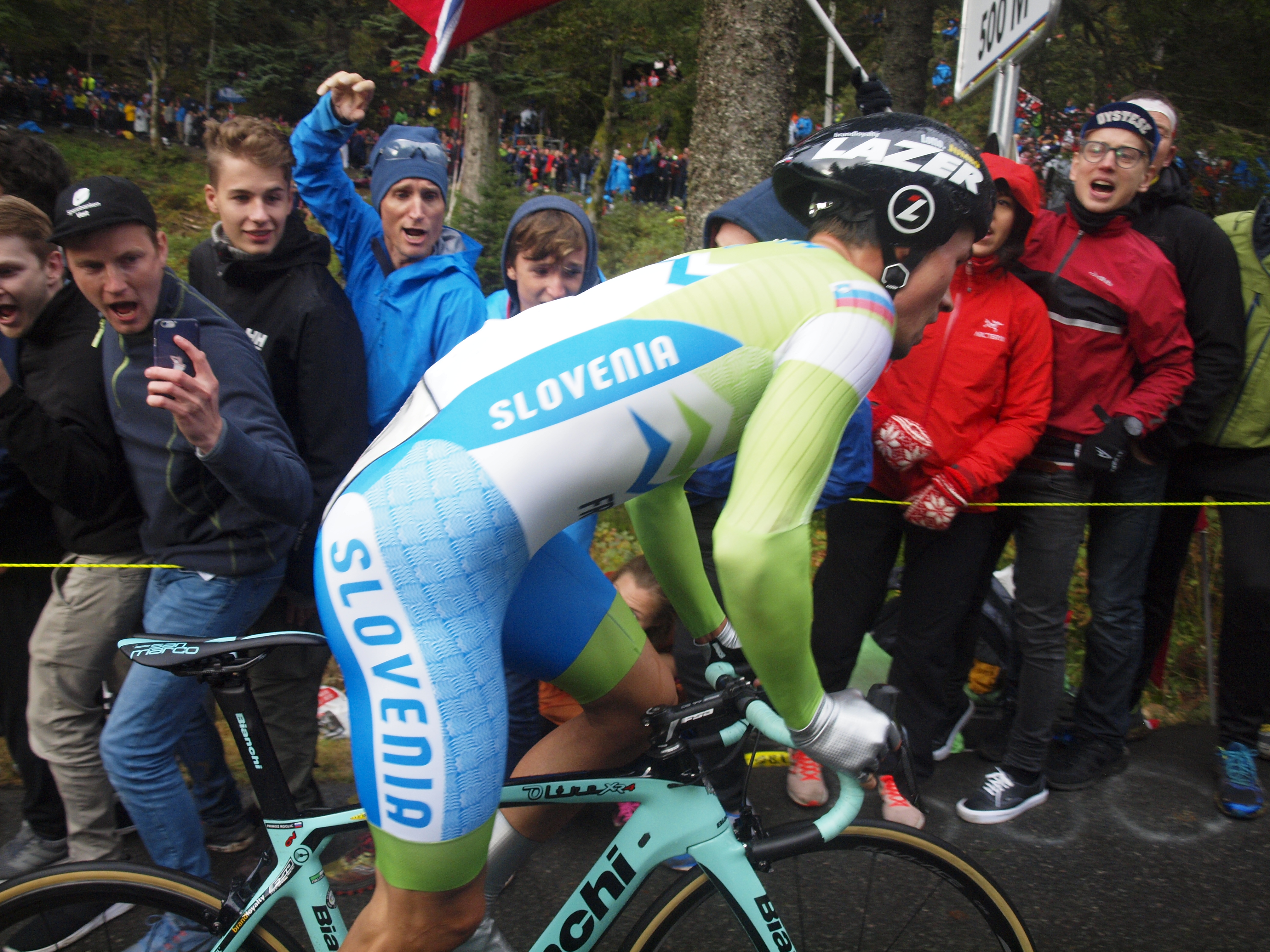 Primož Roglič at the 2017 UCI World Championships